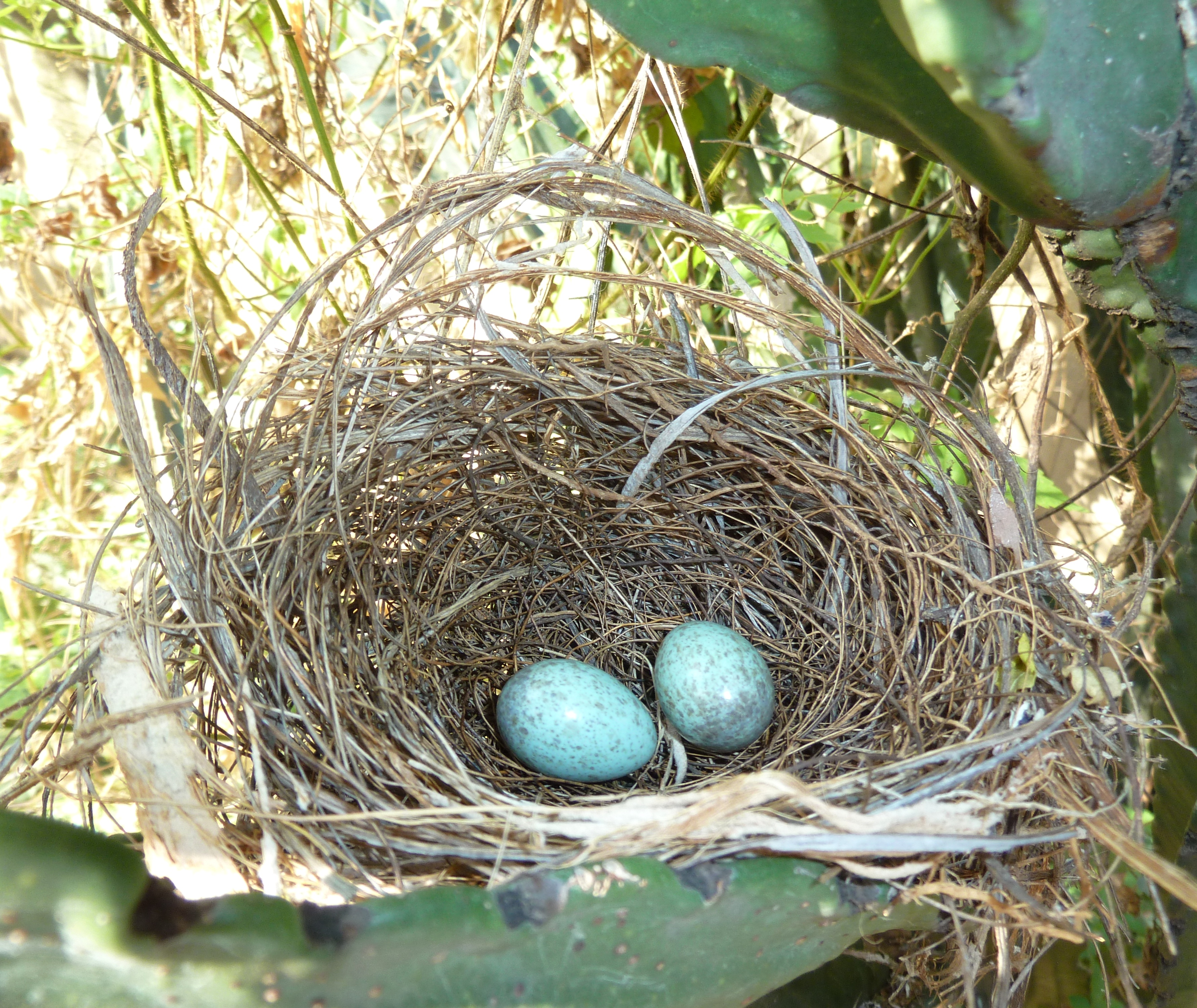 Nest of a pair of Southern Boubous, on the limb of a Euphorbia ingens tree, behind a veil of balloon vine, in suburban Pretoria, South Africa